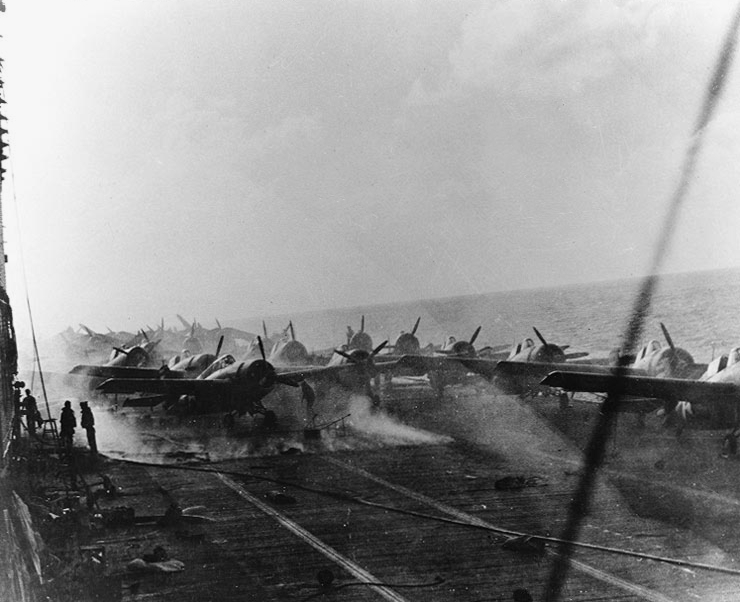 View of the flight deck of the U.S. Navy aircraft carrier USS Lexington (CV-2), at about 1500 hrs on 8 May 1942, during the Battle of the Coral Sea. The ship's air group is spotted aft, with Grumman F4F-3 Wildcat fighters nearest the camera. Douglas SBD Dauntless scout bombers and Douglas TBD-1 Devastator torpedo planes are parked further aft. Smoke is rising around the after aircraft elevator from fires burning in the hangar. Note fire hose, wheels, propellers, servicing stands and other gear scattered on the flight deck.